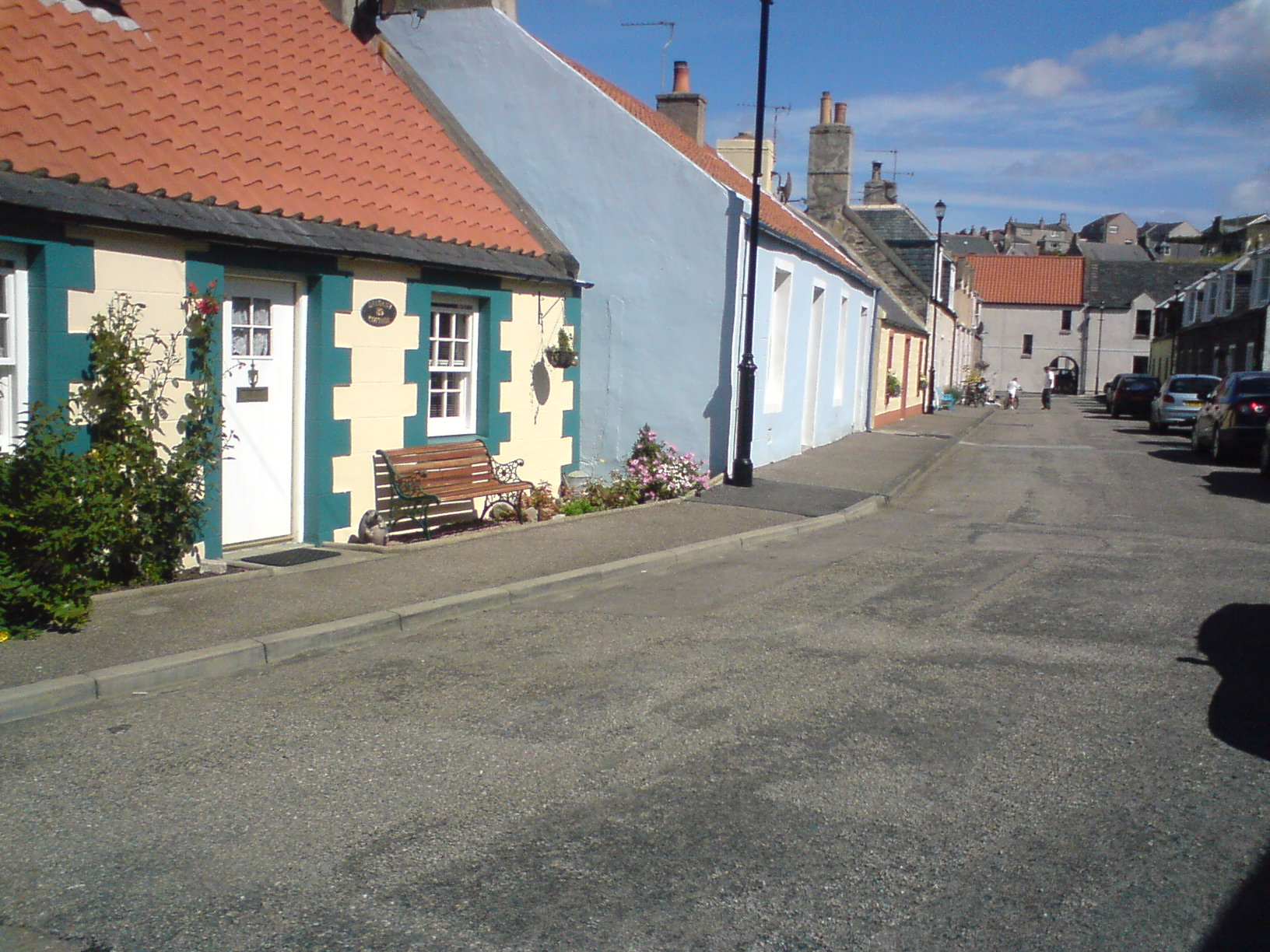 Cullen, Scotland